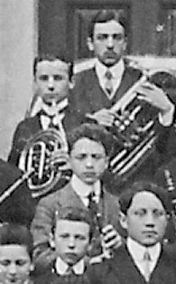 Engelbert Dollfuß (1892-1934) as clarinet-player